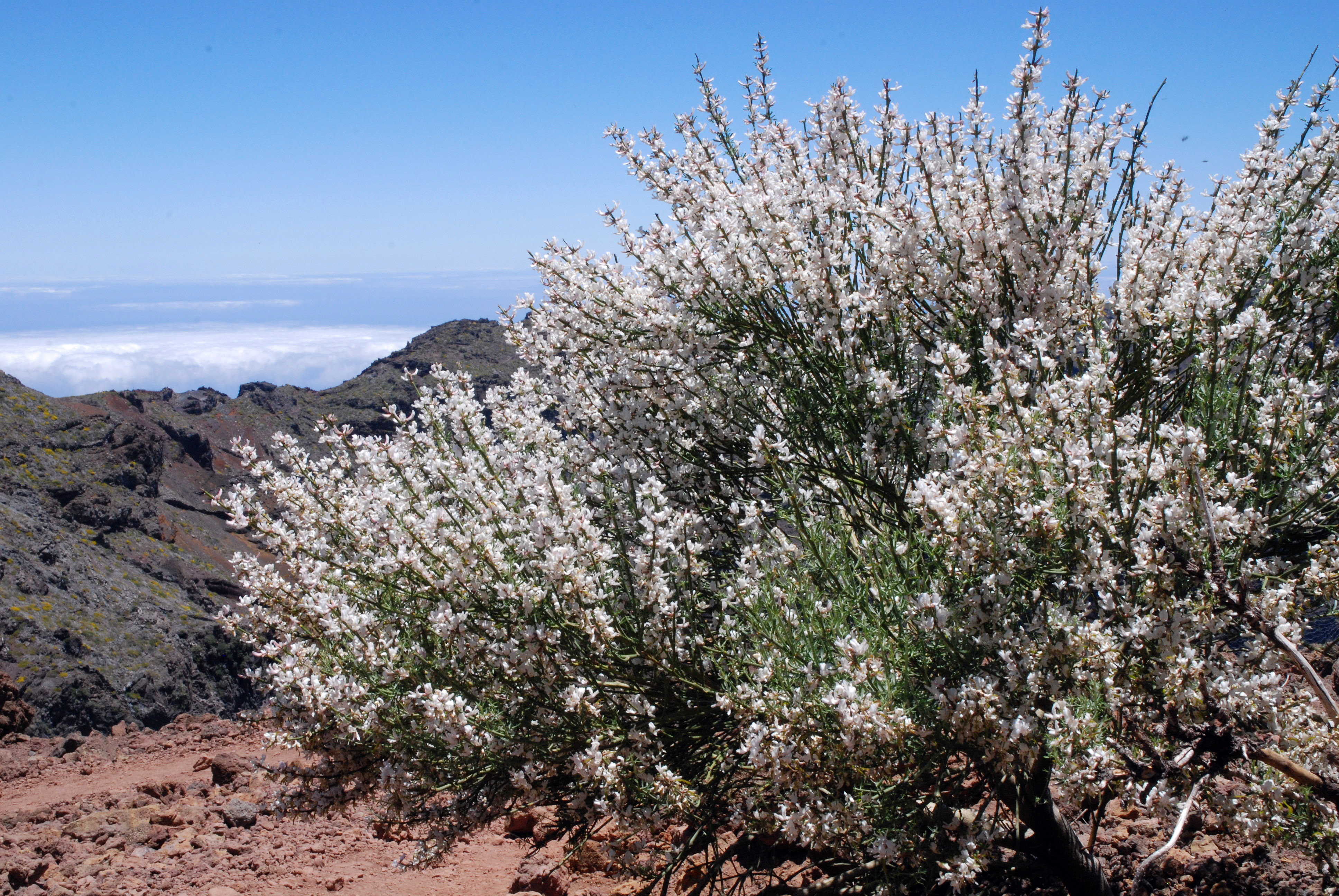 Habitus of Spartocytisus supranubius, Roque de los Muchachos, La Palma, Spain